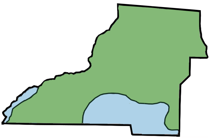 Map depicts Leon County, Florida for the Wicomico terrace and shoreline which was deposited during a warming period (and after the Coharie terrace and shoreline warming period) within the Pleistocene epoch. This map was crated by overlaying a USGS terrace and shoreline map over an accurate Leon County matching template.